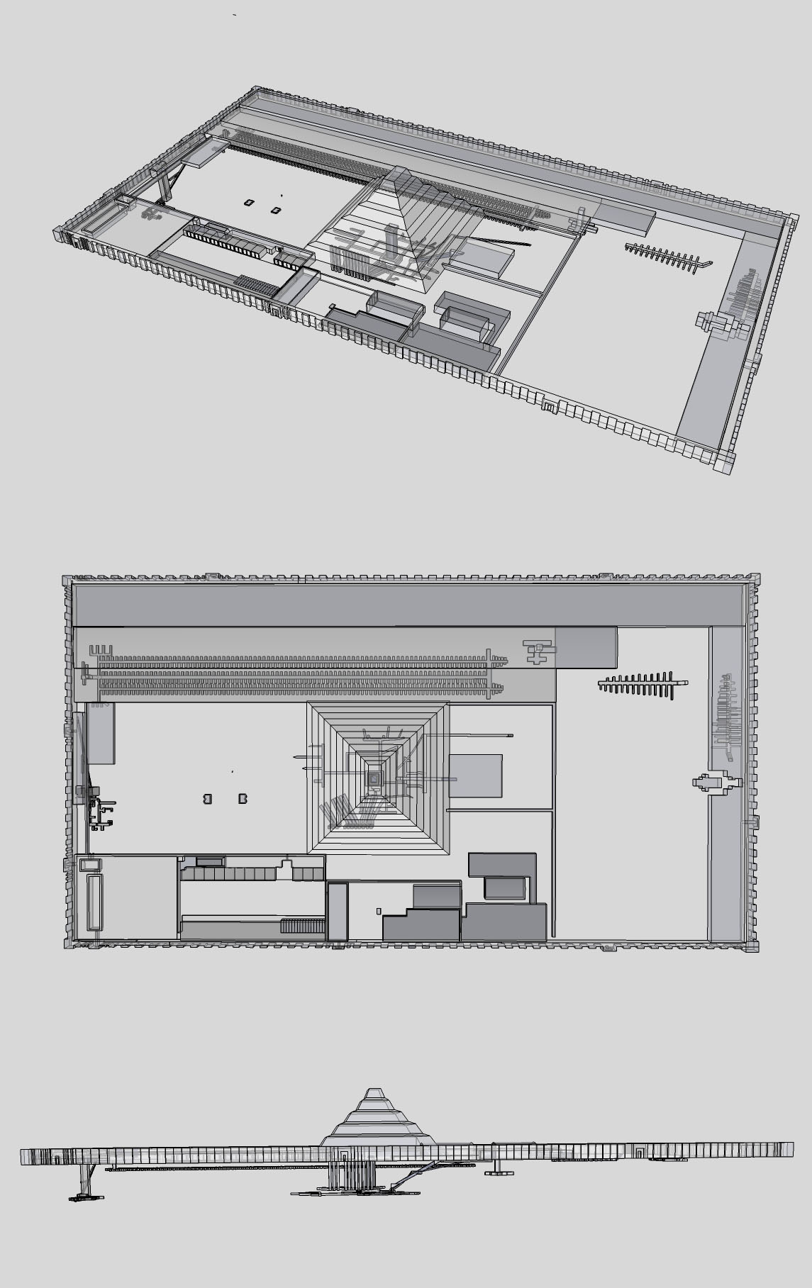 Isometric, plan and elevation images Djoser's Pyramid Complex taken from a 3d model